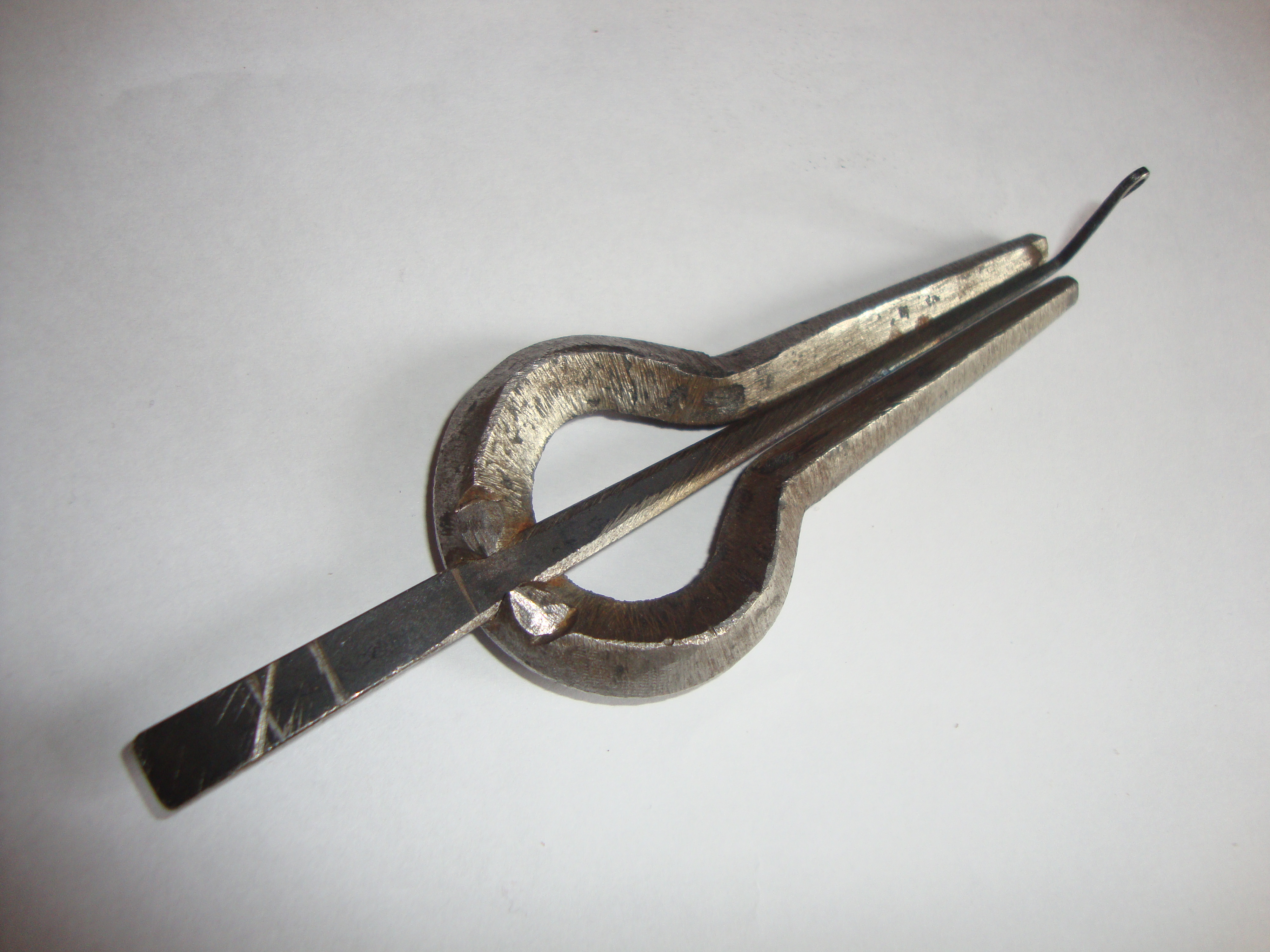 Morsing, also known as Jews Harp